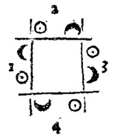 The diagram shows the position and numbering of dancers in a 17th century English square dance.